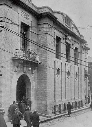 Dojima Rice Exchange in 1930s